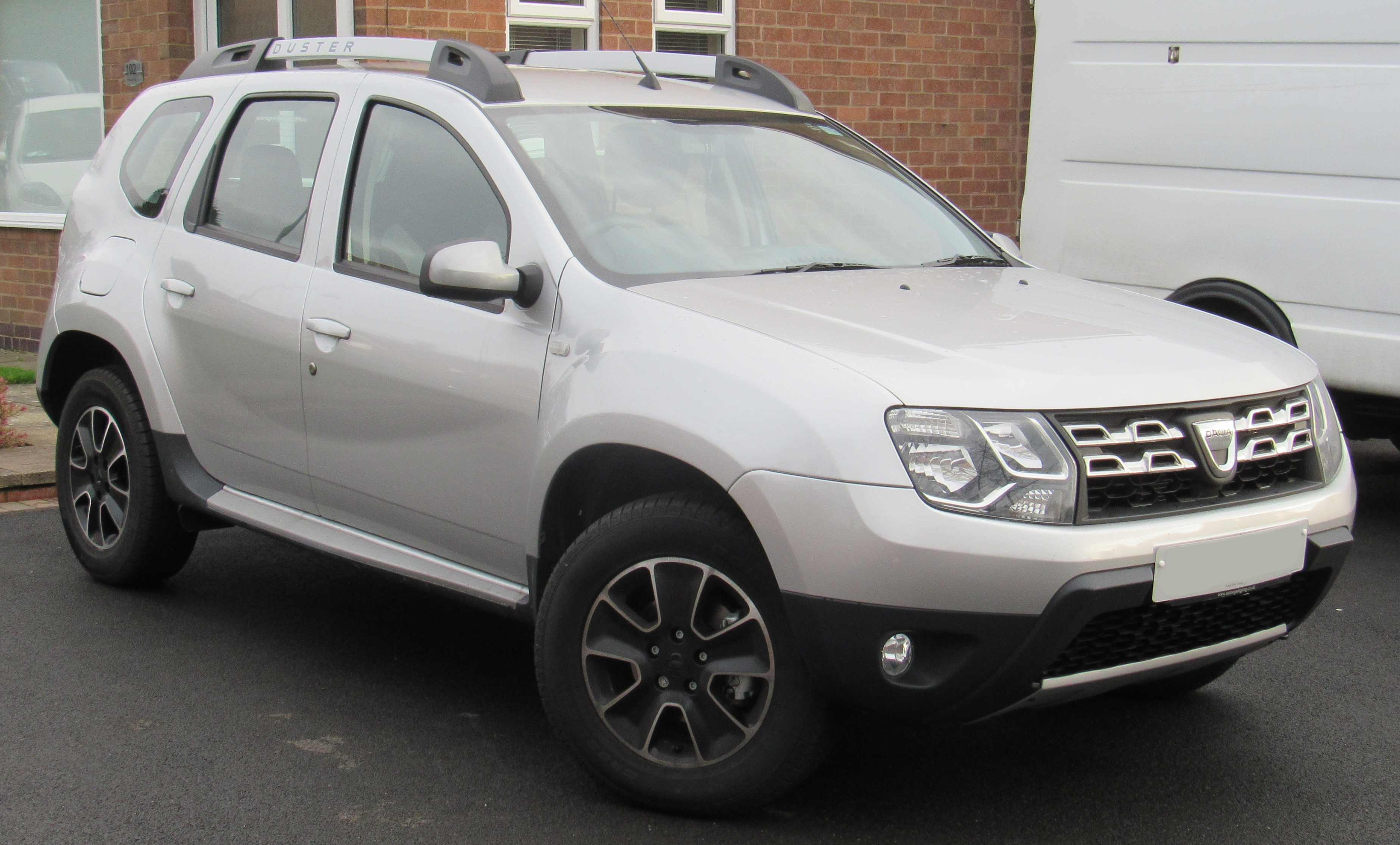 2017 Dacia Duster Prestige DCi Automatic facelift 1.5 Taken in Warwick